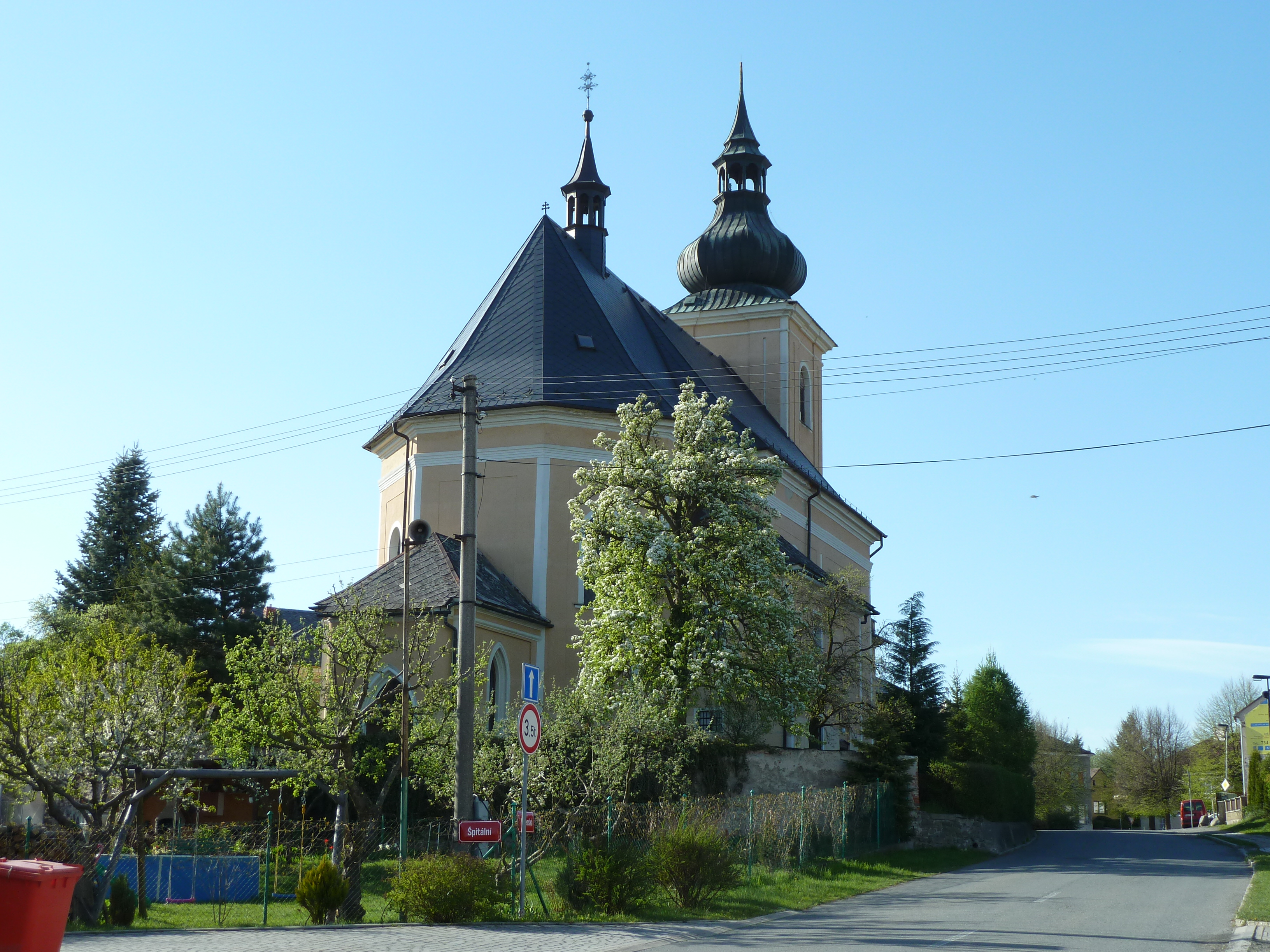 "Church of the Saint Jacob Elder" in village Velký Újezd (Olomouc district, Czech Republic)